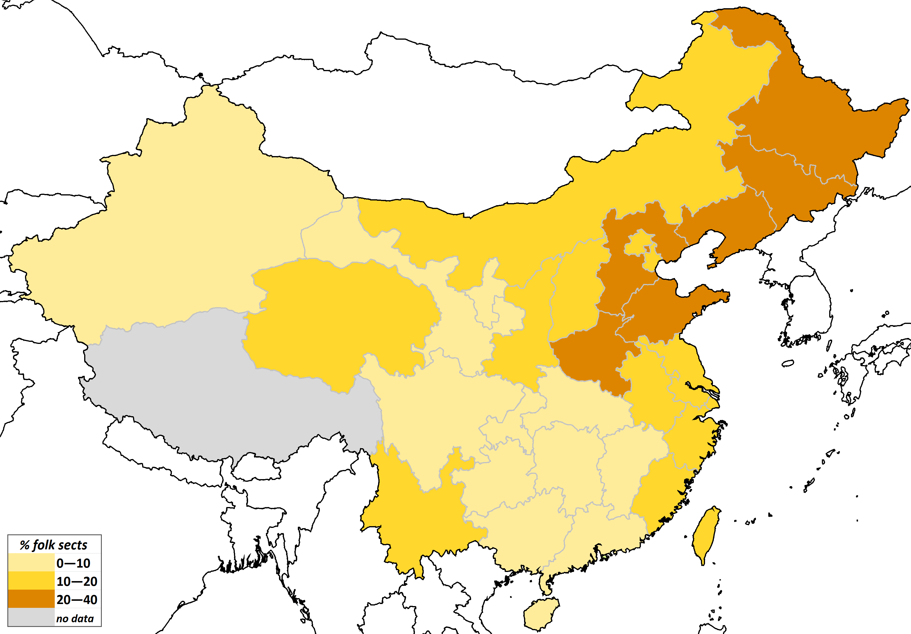 Analysis of the diffusion of influence of the folk religious sects (民間宗教 mínjiān zōngjiào, 民间教门 mínjiān jiàomén or 民间教派 mínjiān jiàopài), and Confucian churches and jiaohua (transformative teachings) in China, according to different sources including: incomplete data on organised folk religions by province from the World Religion Database represented in a map by Harvard University; contemporary scholars' fieldwork describing the proliferation of Confucian churches in Shandong and other provinces; historical data of the membership of folk sects and Confucian churches in the Japanese-controlled state of Manchuria.